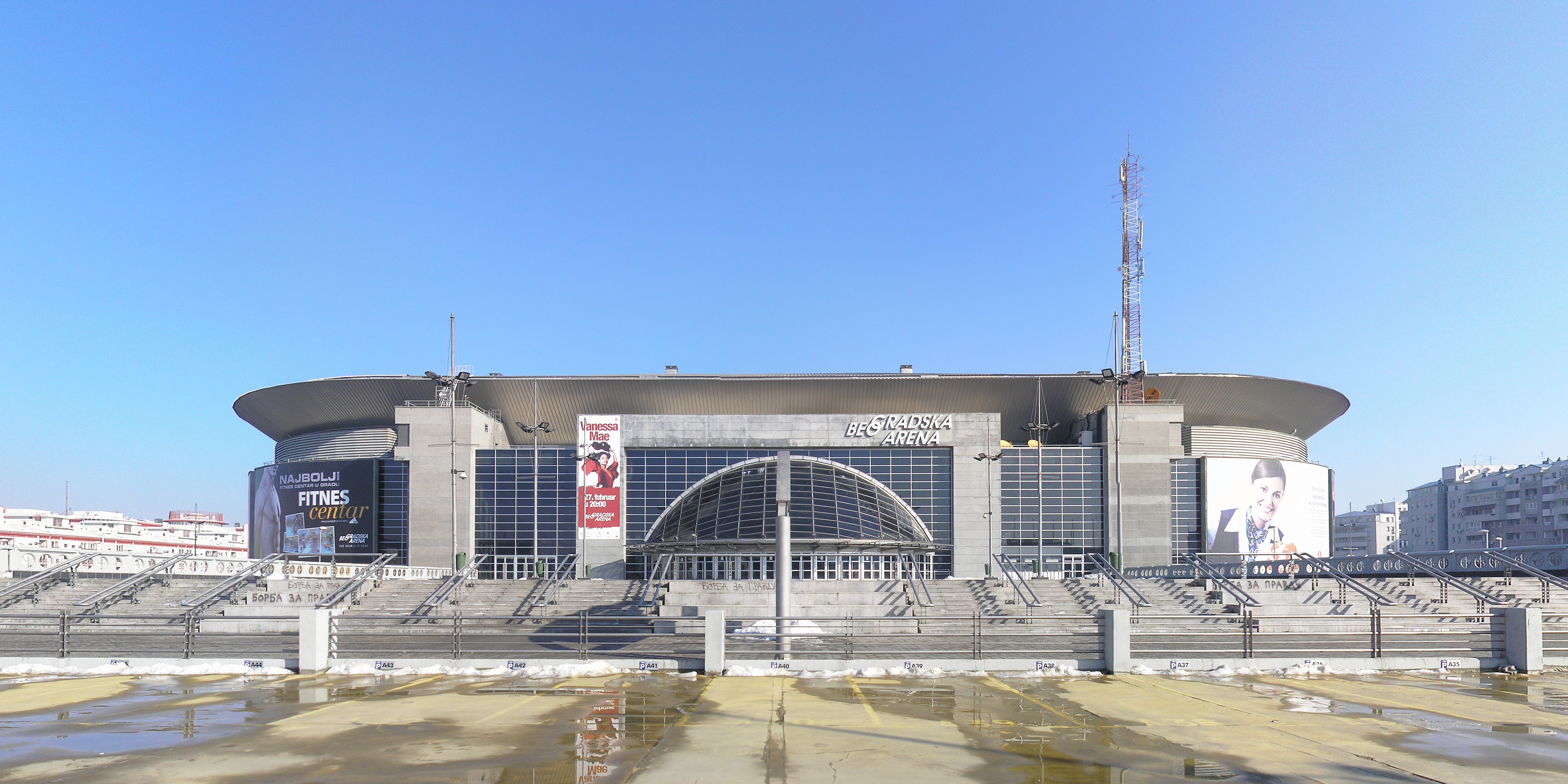 South entrance to Belgrade Arena. Photo 2 in Feb 2011.